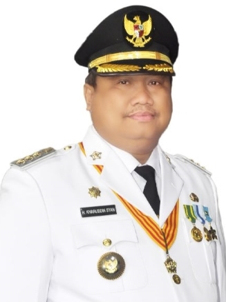 Khairuddin Syah Sitorus as Regent of Labuhanbatu Utara